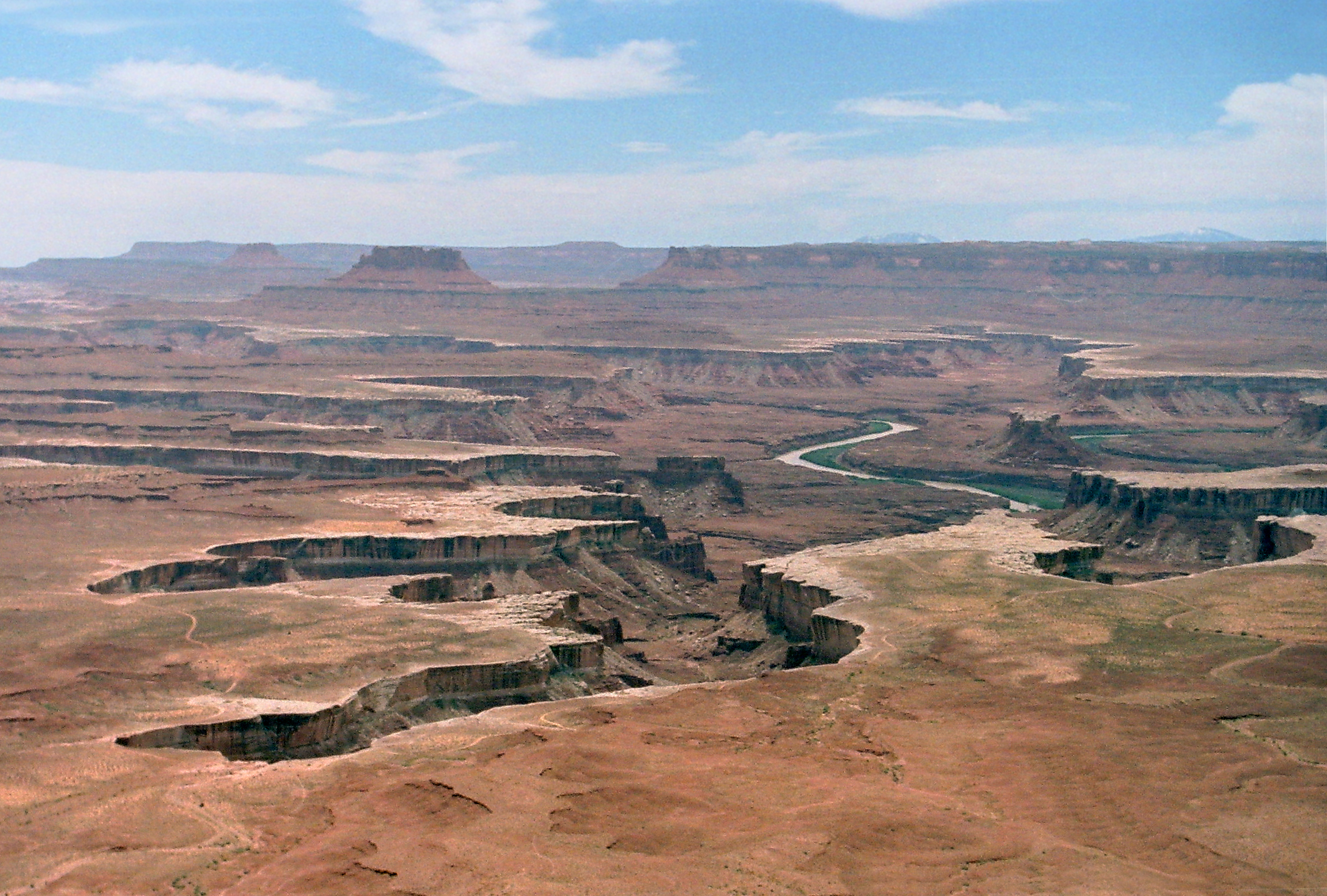 Canyonlands National Park is located in eastern Utah near the city of Moab, United States, district Island in the Sky. View from Green River Overlook.